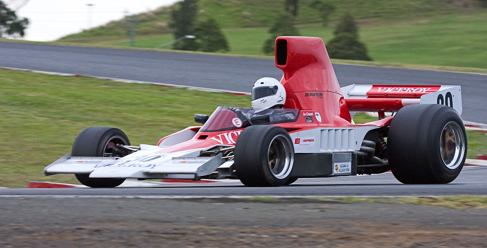 Tasman Revival 2008, Eastern Creek, Australia IMG_4308